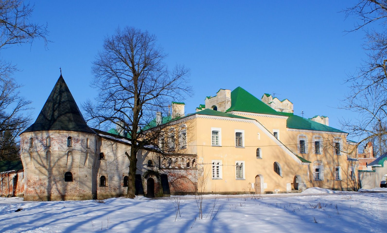 Feodorovsky gorodok in Tsarskoye Selo. The Yellow chamber and Corner tower